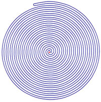 Exemple of tricky Jordan curve.